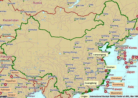 Map showing locations of nuclear powerplants in China from Energy Information Agency website.